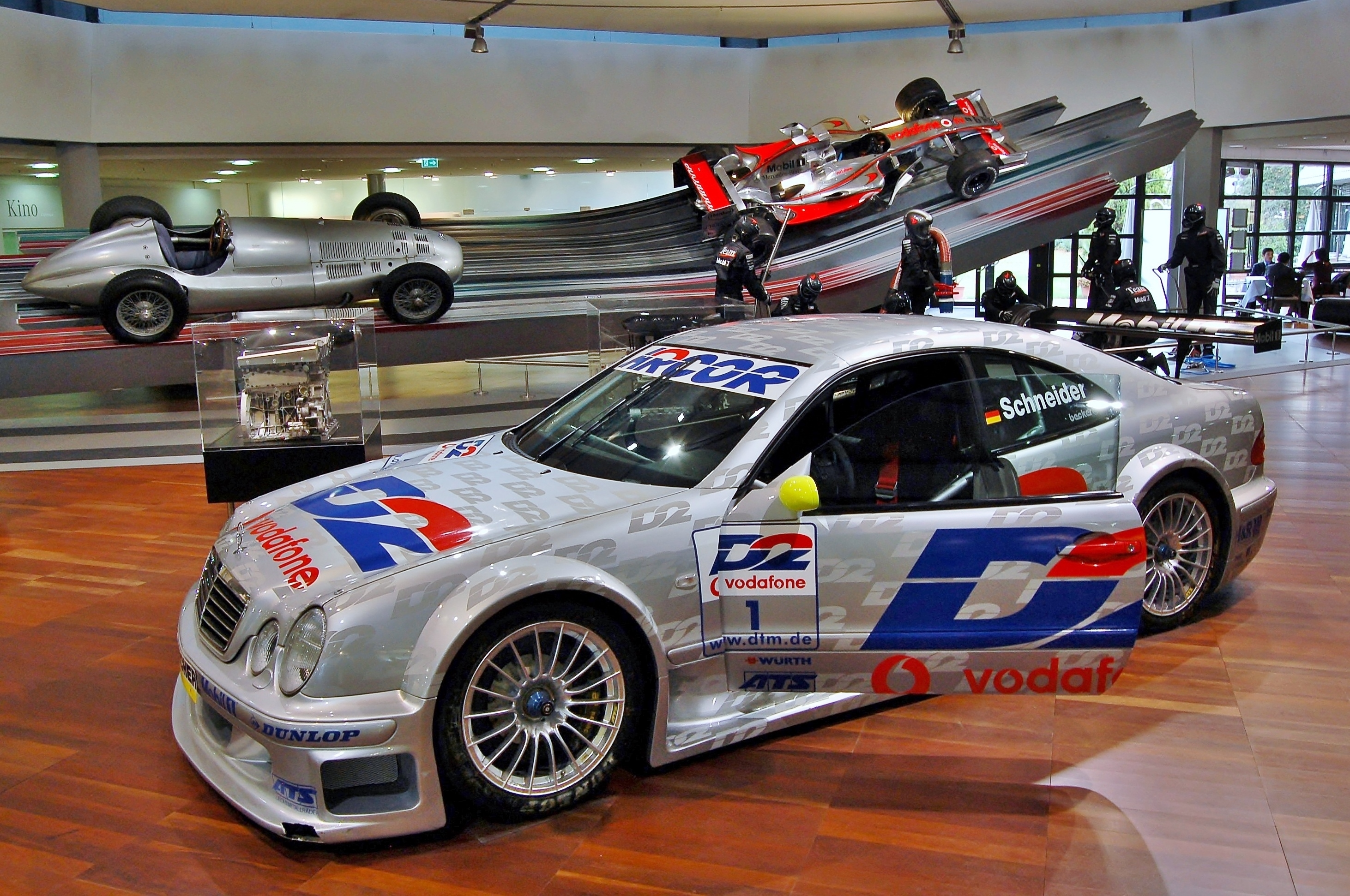 A Mercedes-Benz C208 showcar in the livery of Bernd Schneider's 2001 Deutsche Tourenwagen Masters-winning AMG-Mercedes CLK-DTM 2001, on display at the Mercedes-Benz customer center at Sindelfingen, Baden-Württemberg, Germany.